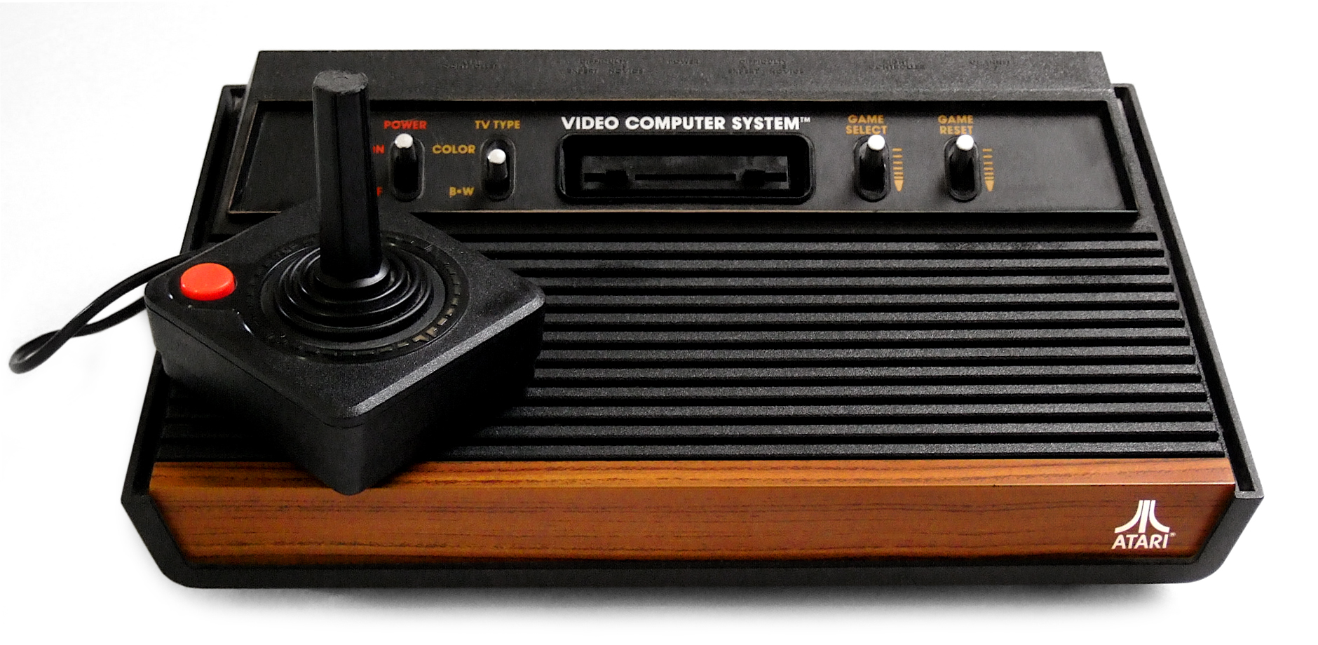 Atari 2600 mit Joystick